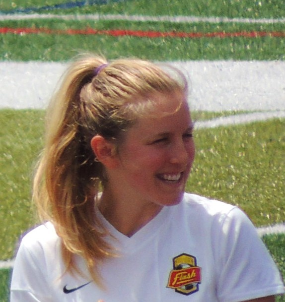 2013-07-04; Alex Sahlen in starting lineup of Chicago Red Stars vs Western New York Flash